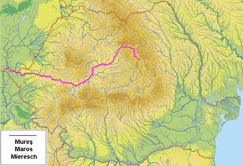 Map of river Mures.